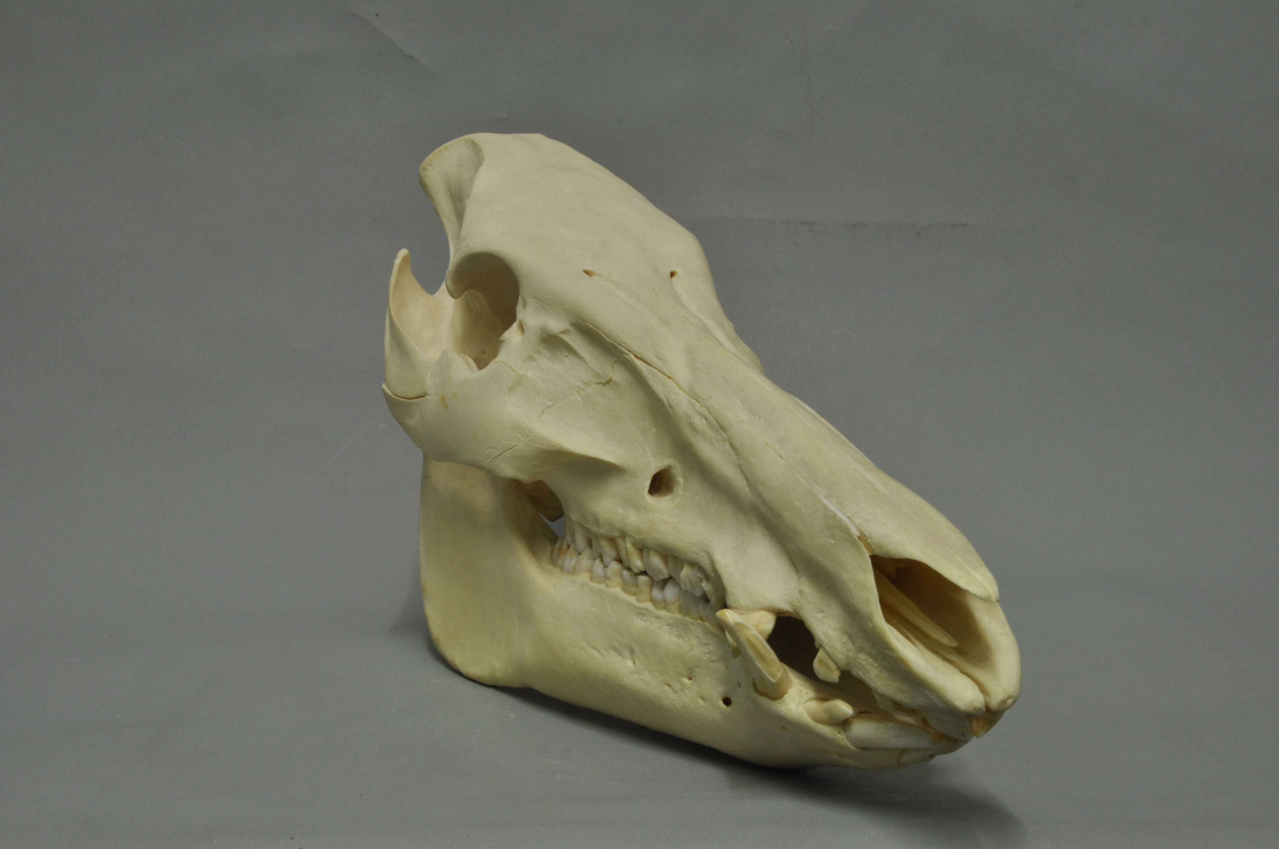 Wild boar Sus scrofa , skull, Coll. Museum Wiesbaden